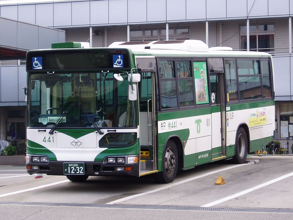 Kobe City Bus 441 Hino KL-HU2PLEA at Chuo Branch This picture is obtaining and photoing permission of the persons concerned.